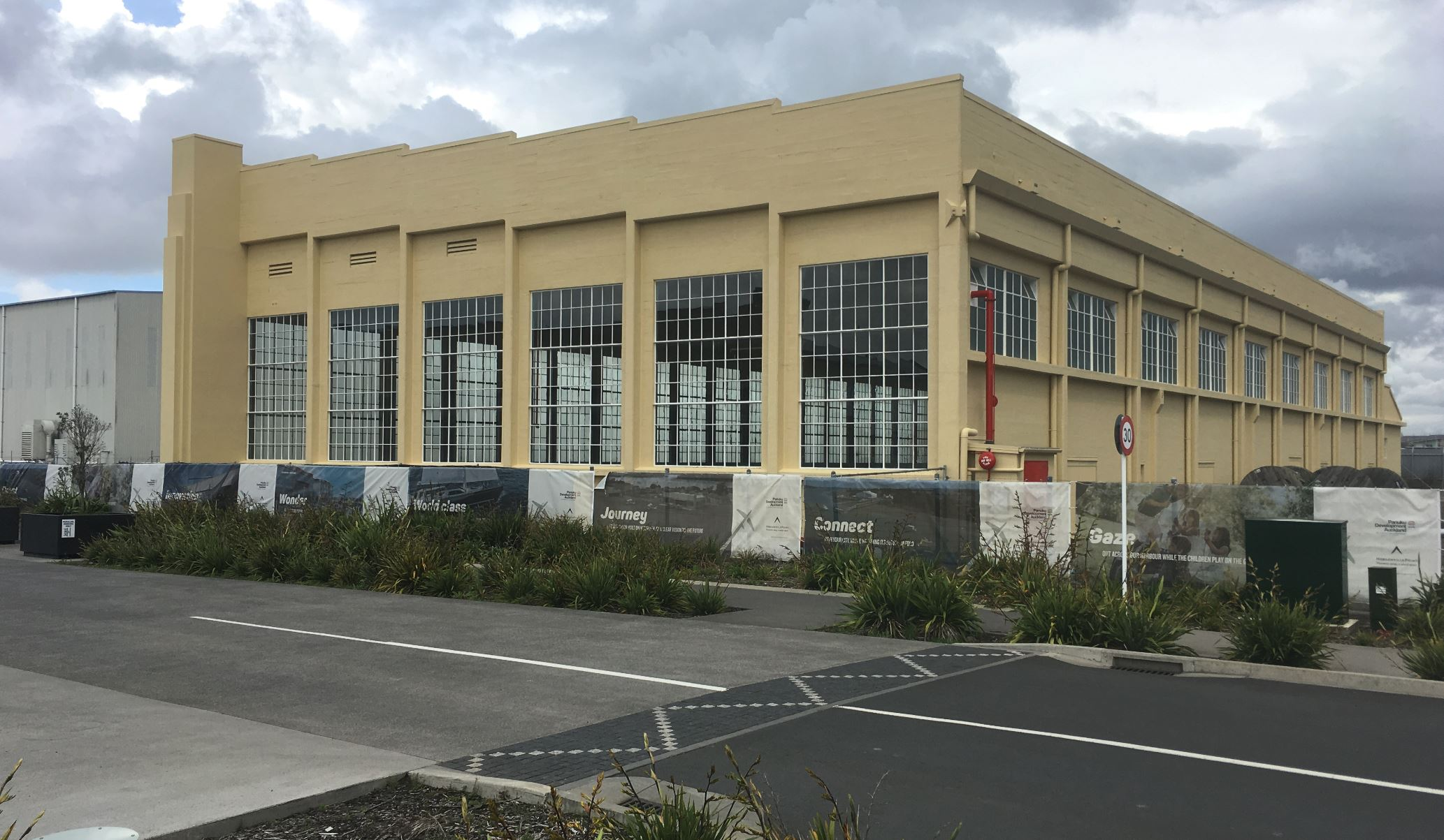 Building formerly used as a hangar by the First Techical Training School, Royal New Zealand Airforce at Hobsonville, Auckland, New Zealand.